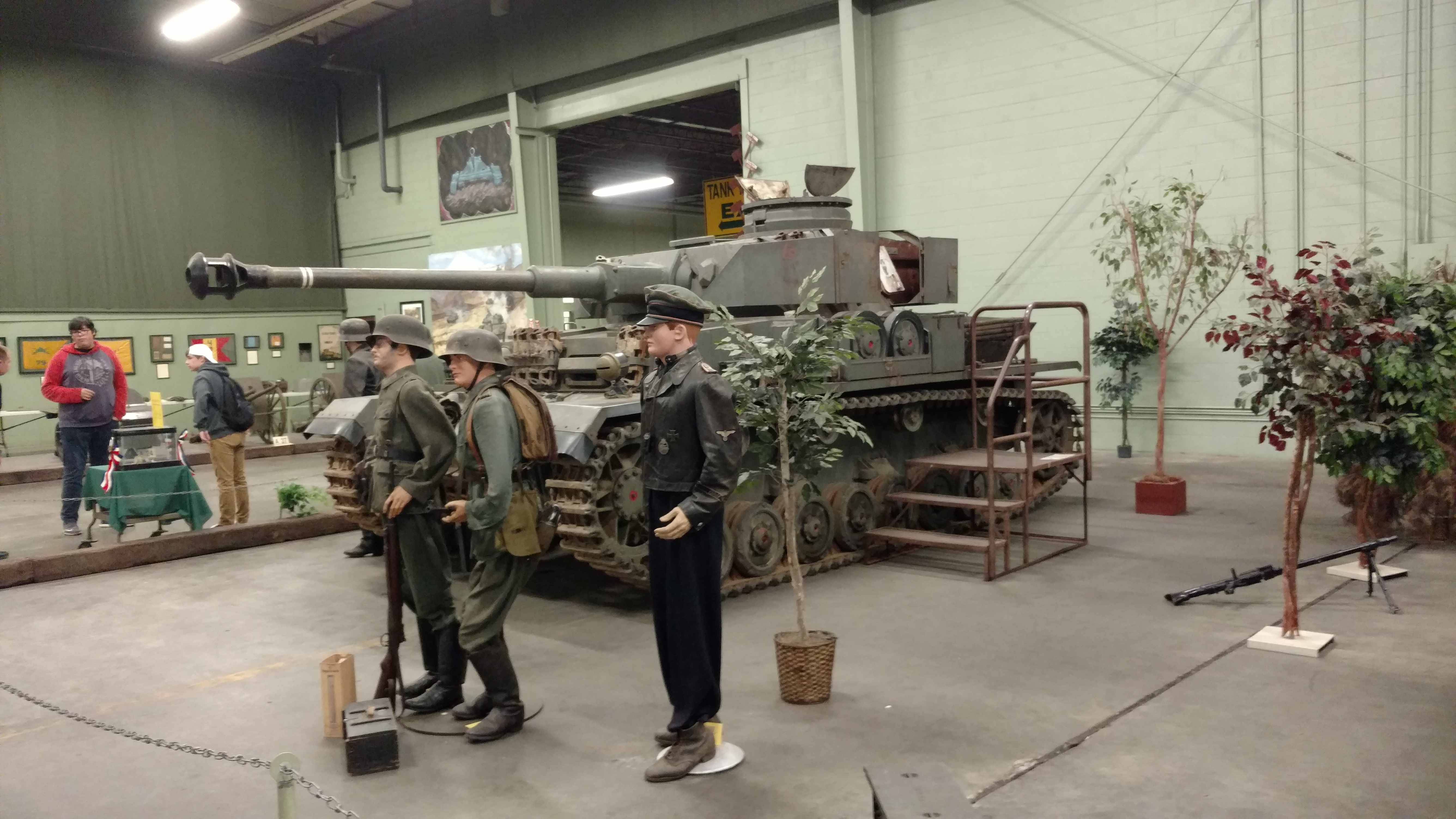 A Panzer IV, unknown variant, on display at the AAF Tank Museum in Danville, Virginia. This tank was sold to Syria by Czechoslovakia and used to bombard Israeli settlements from the Golan Heights. The Israeli Army captured it in the Six-Day War and gave it to the museum at Yad La-Shiryon, which in turn traded it to the AAF Tank Museum for an M5 Stuart. Foreground: Hitler Youth waxworks.